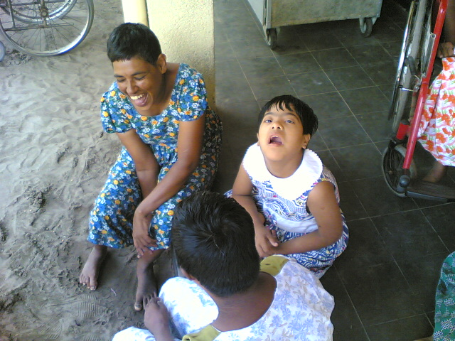 Asela Wickremesooriya. 2006/04/02. Preethipura